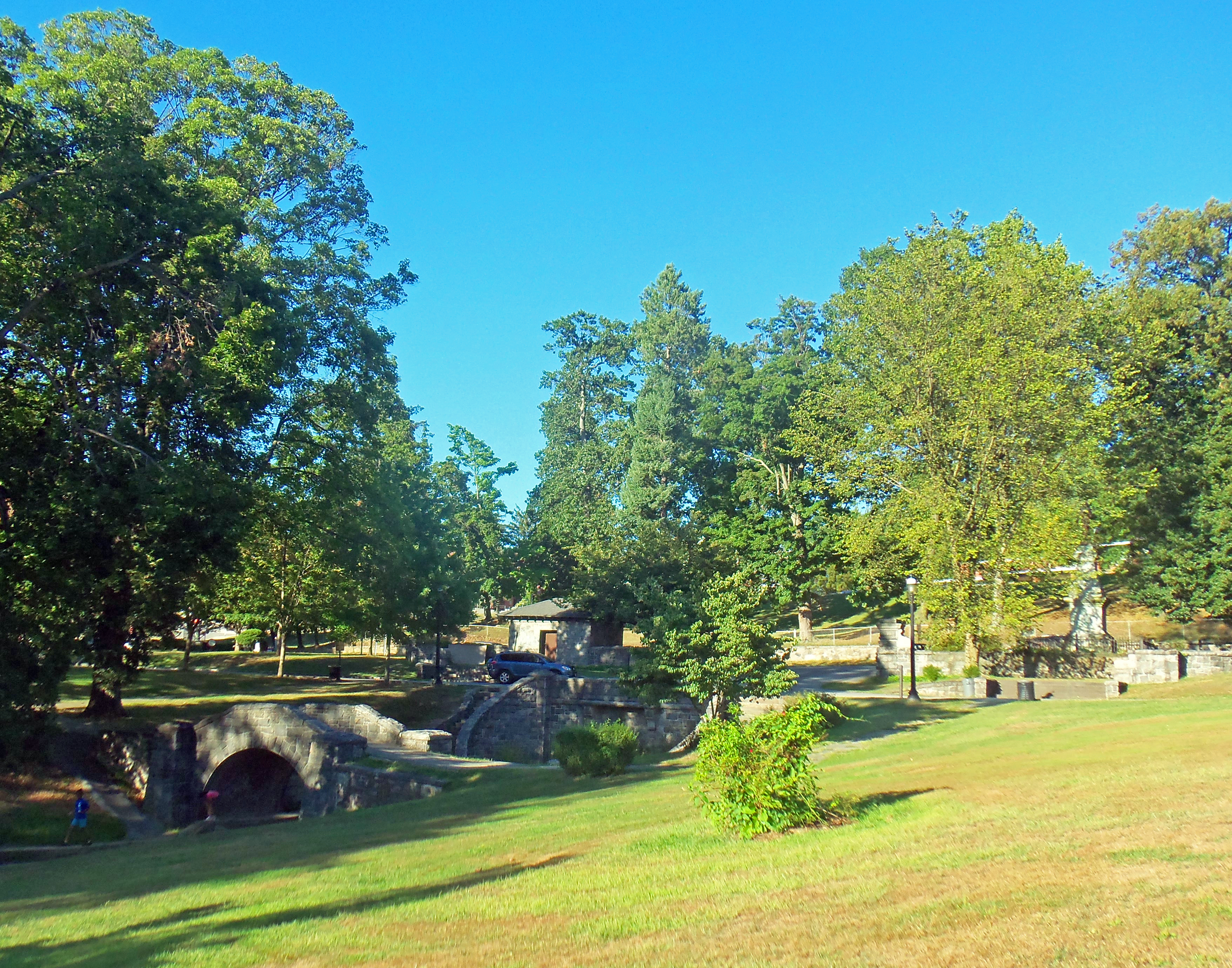 View of two bridges along brook and Captors' Monument in Patriot's Park, on the border between Tarrytown and Sleepy Hollow, NY, USA